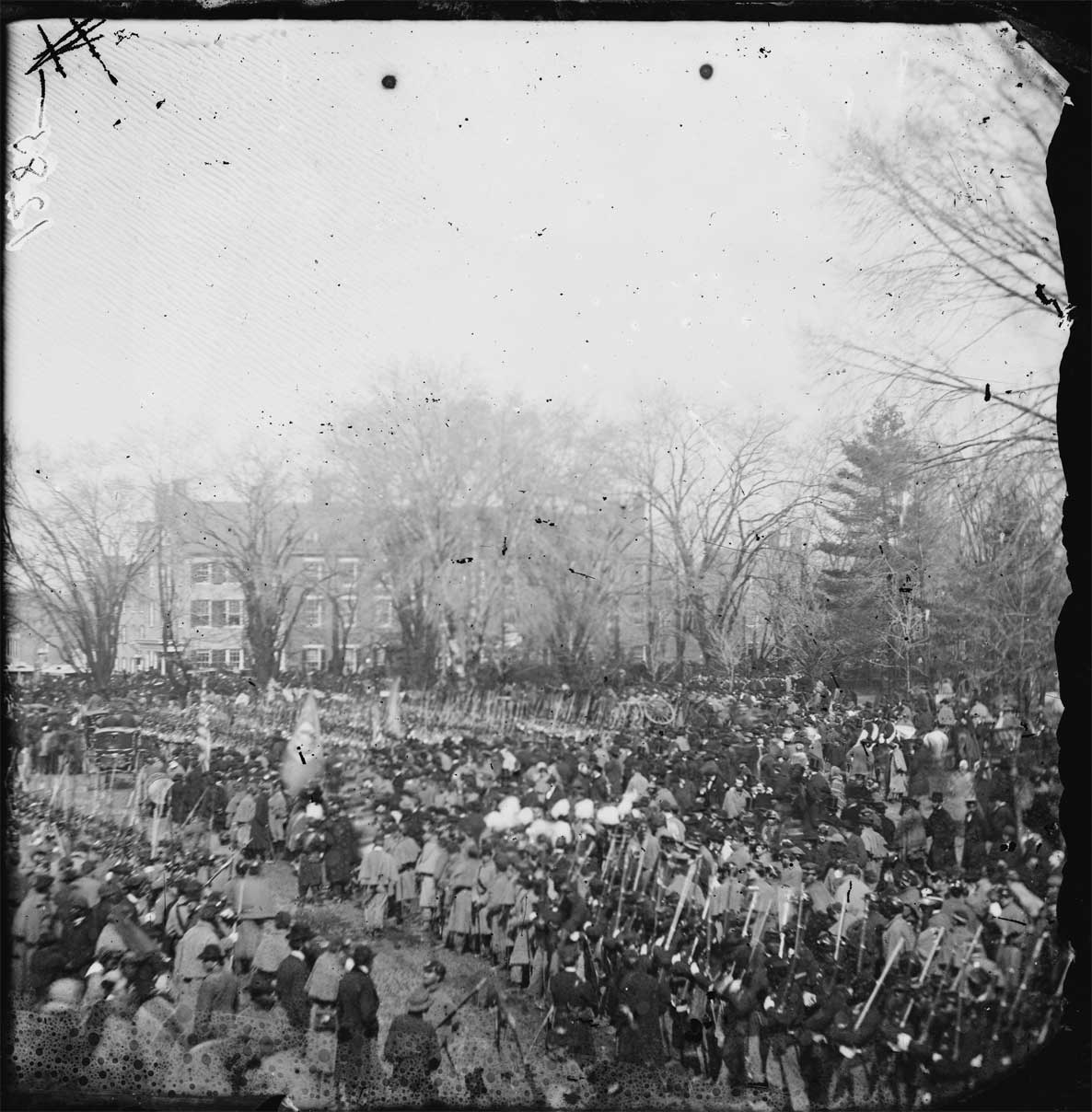 The 2nd Lincoln inauguration parade, showing African American soldiers participating.